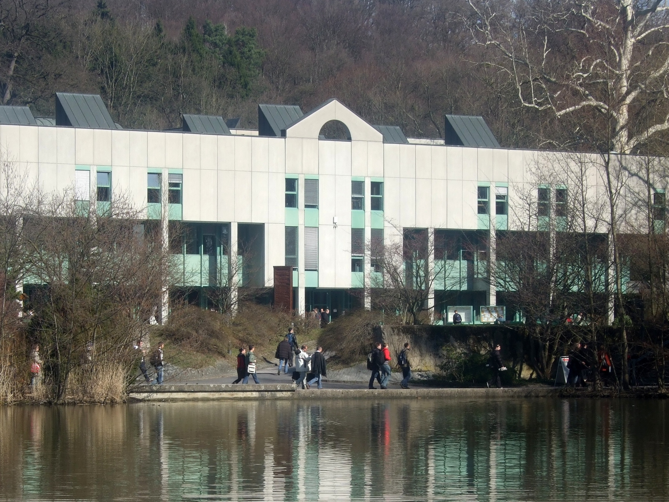 Library of the Johannes Kepler University of Linz from across the pond